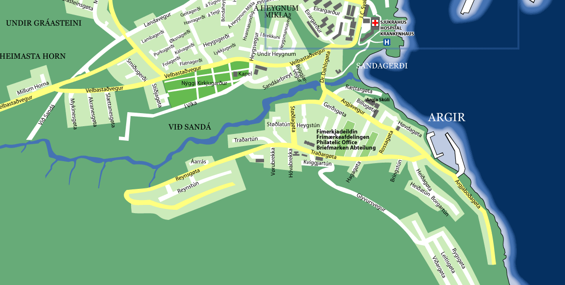 Map of Argir, a village and suburb of Tórshavn, located in the south of the Faroese capital.